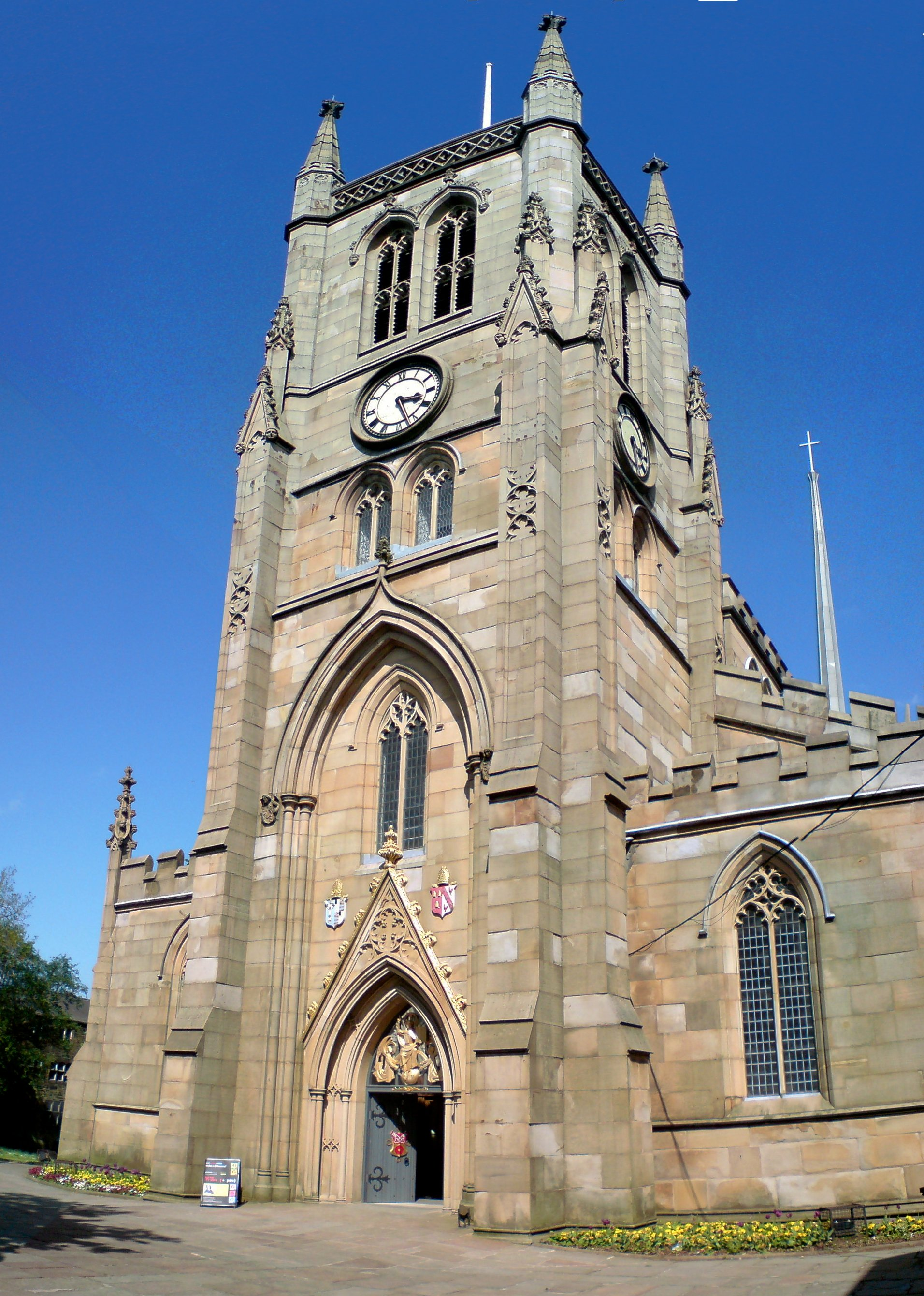 Front of Blackburn Cathedral